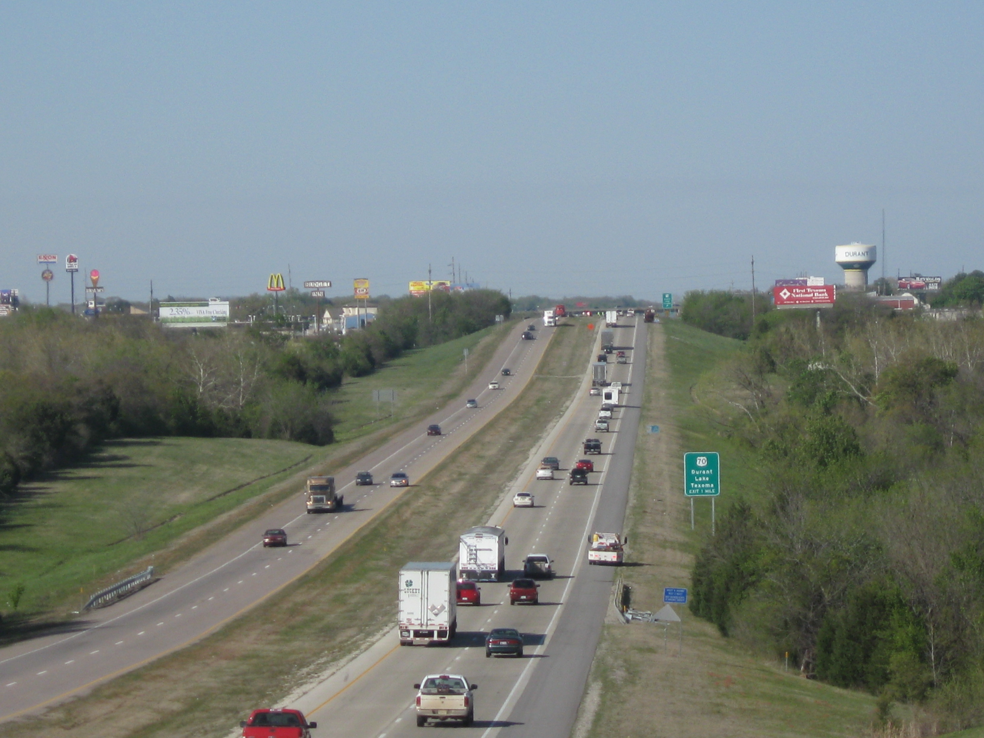 Looking north over Highway 69/75 in Durant.